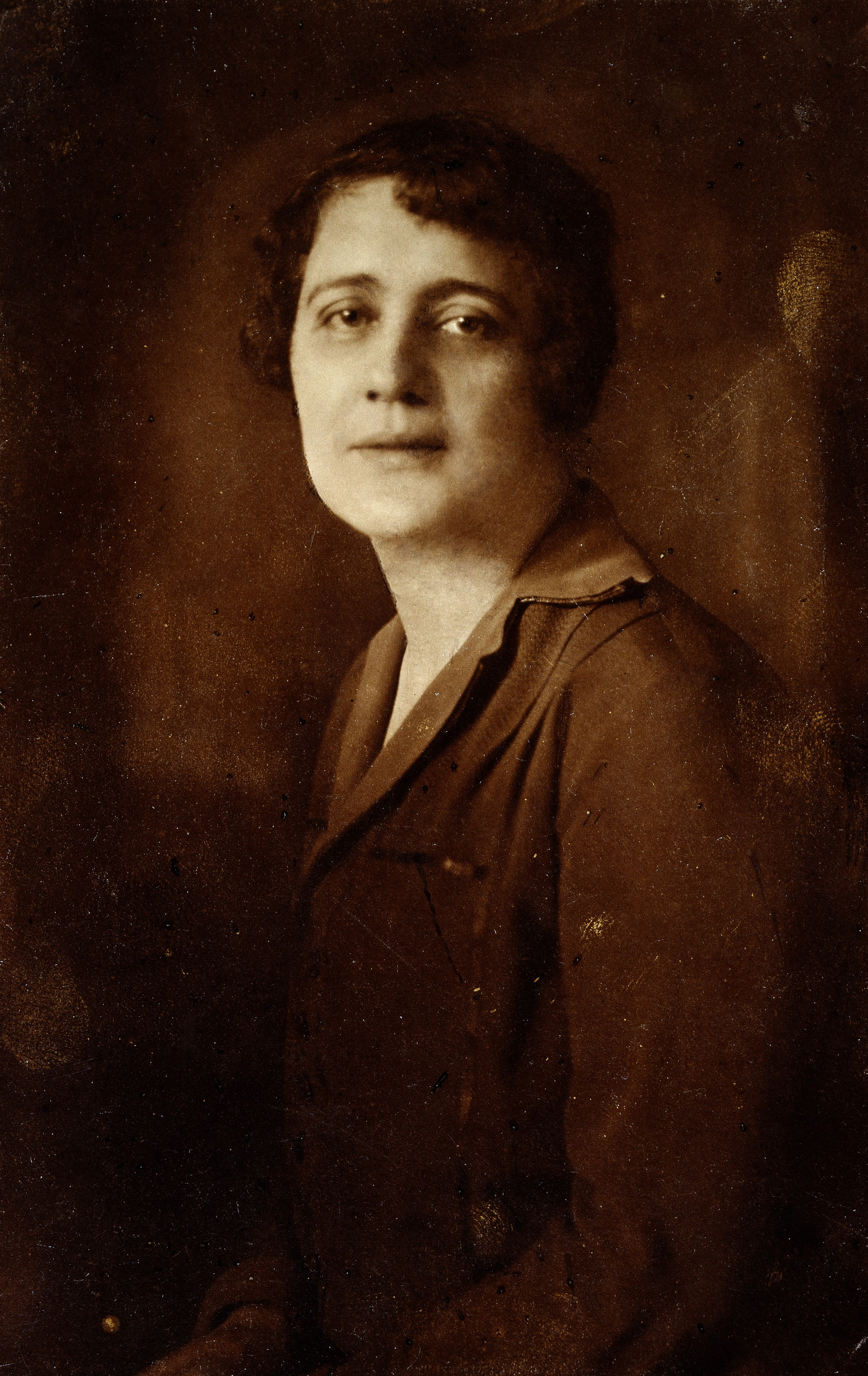 No. 16 Melanie Klein, 1925. Iconographic Collections Keywords: Melanie. Klein